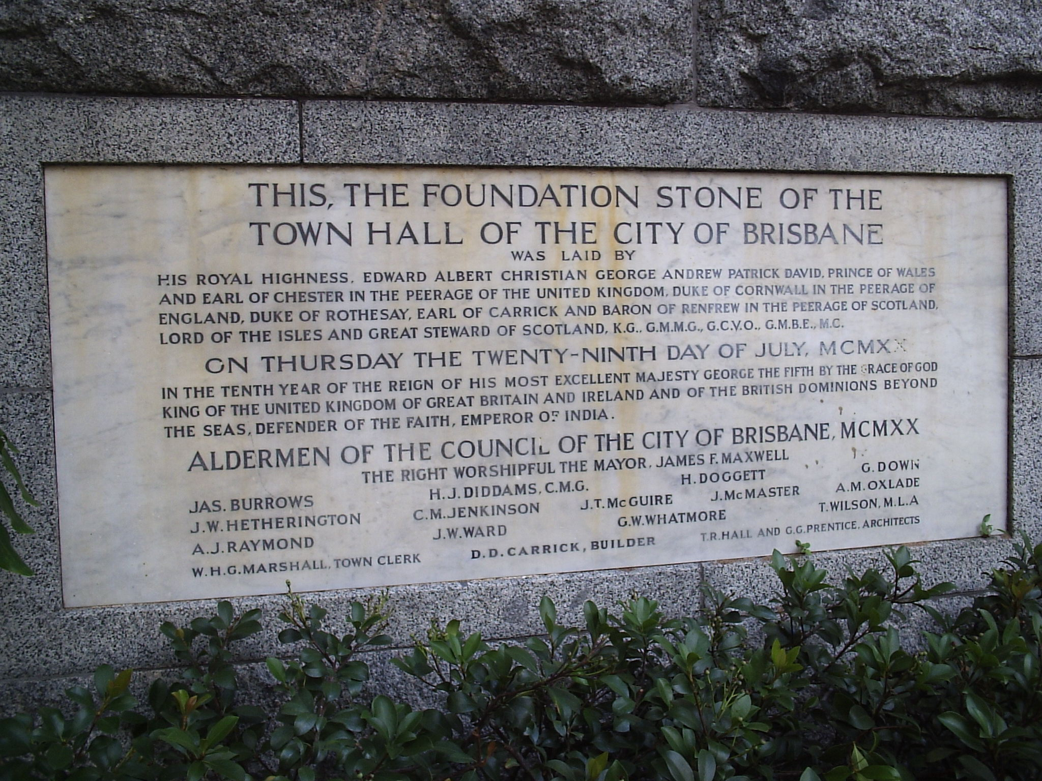 Brisbane City Hall Foundation Stone number 2